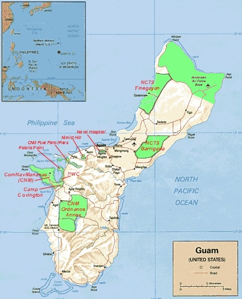 Map of Military Installations on Guam.